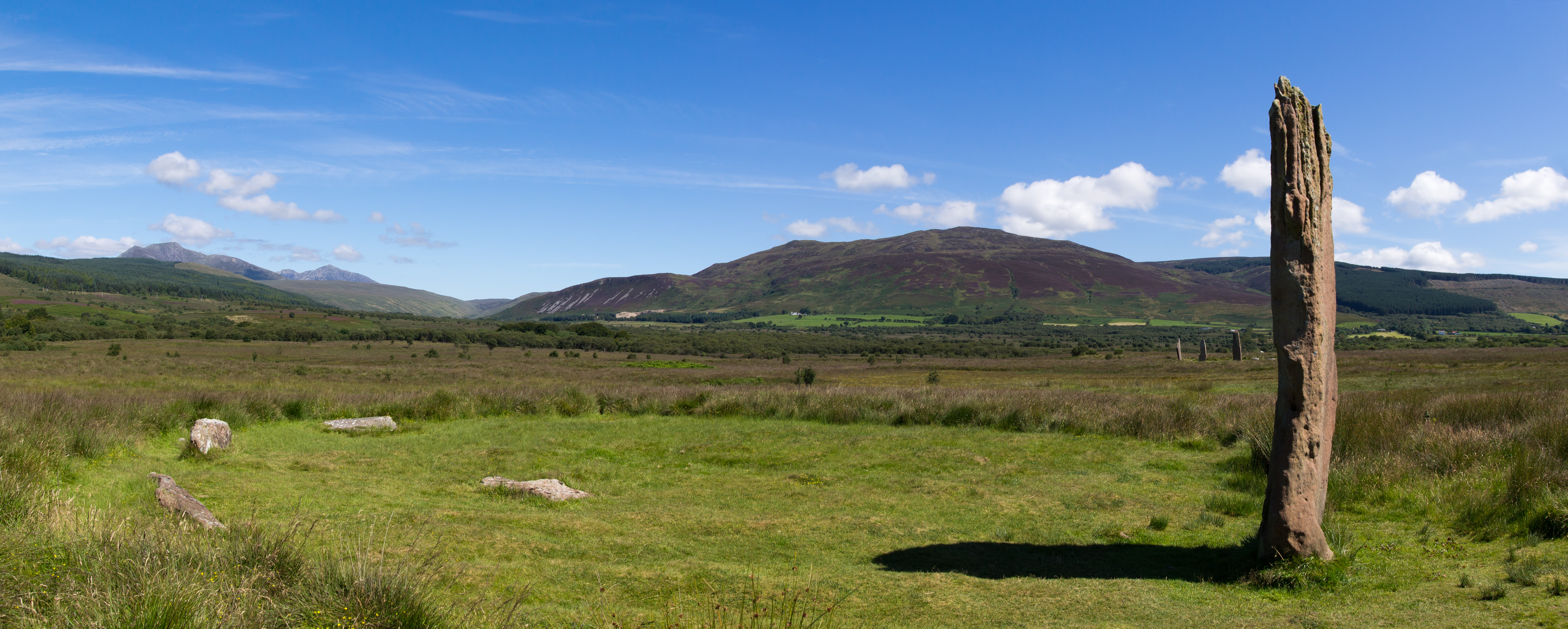 Circle 3 at Machrie Moor. One remaining stone standing 4.3m tall. The stumps of three others remain. In the middle distance to the right are the three large stones of circle 2. In the far distance to the left are the mountains of the north of Arran, consisting of Beinn Tarsuinn and Goat Fell.